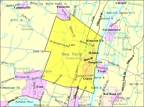 U.S. Census Reference Map of Saugerties (town), New York